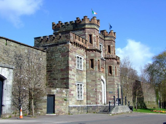 Gatehouse, Cork City Gaol, Cork City Now a tourist attraction